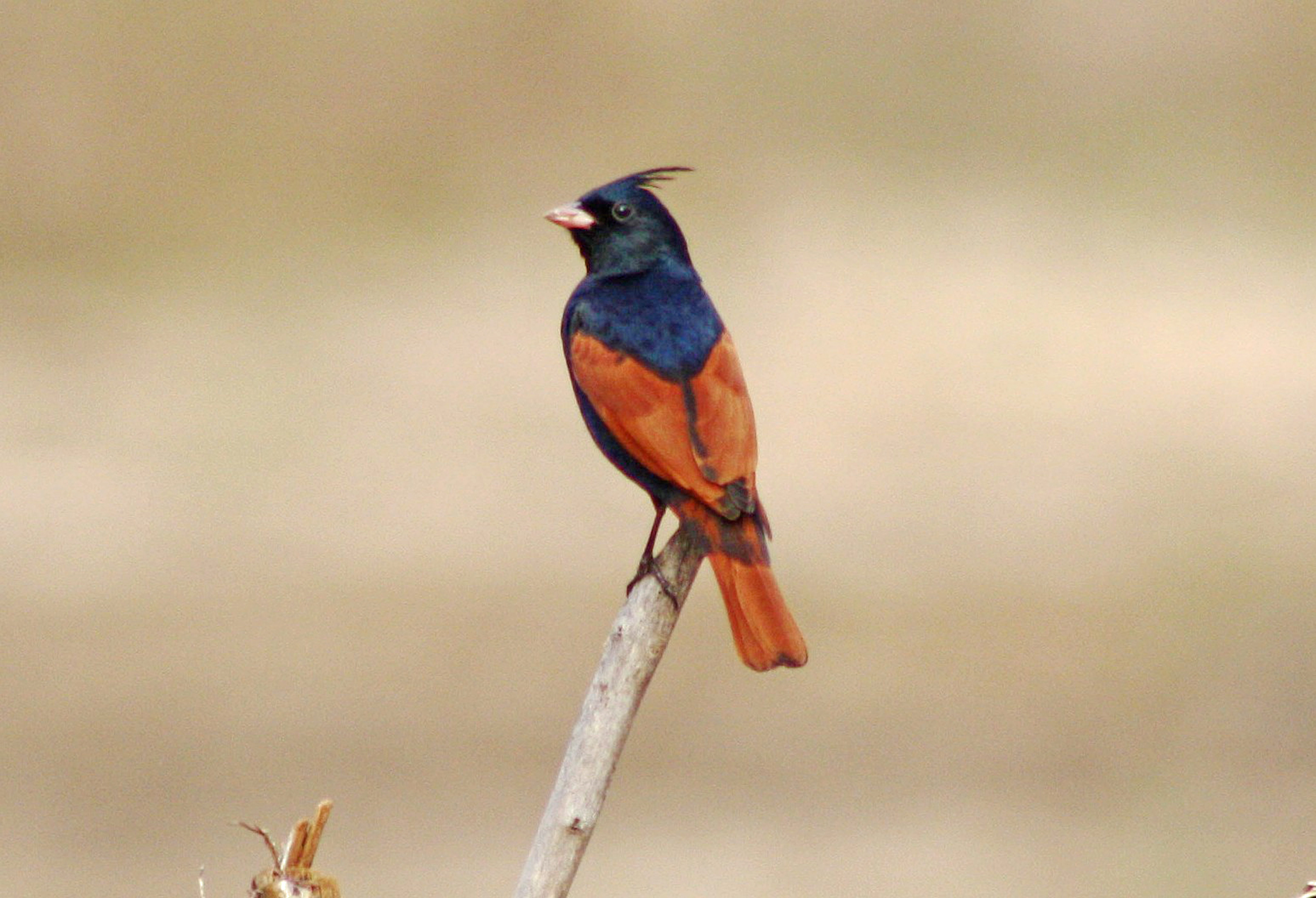 Photo taken in Melghat Tiger Reserve, Maharashtra, India. Clicked on 10 February 2010.